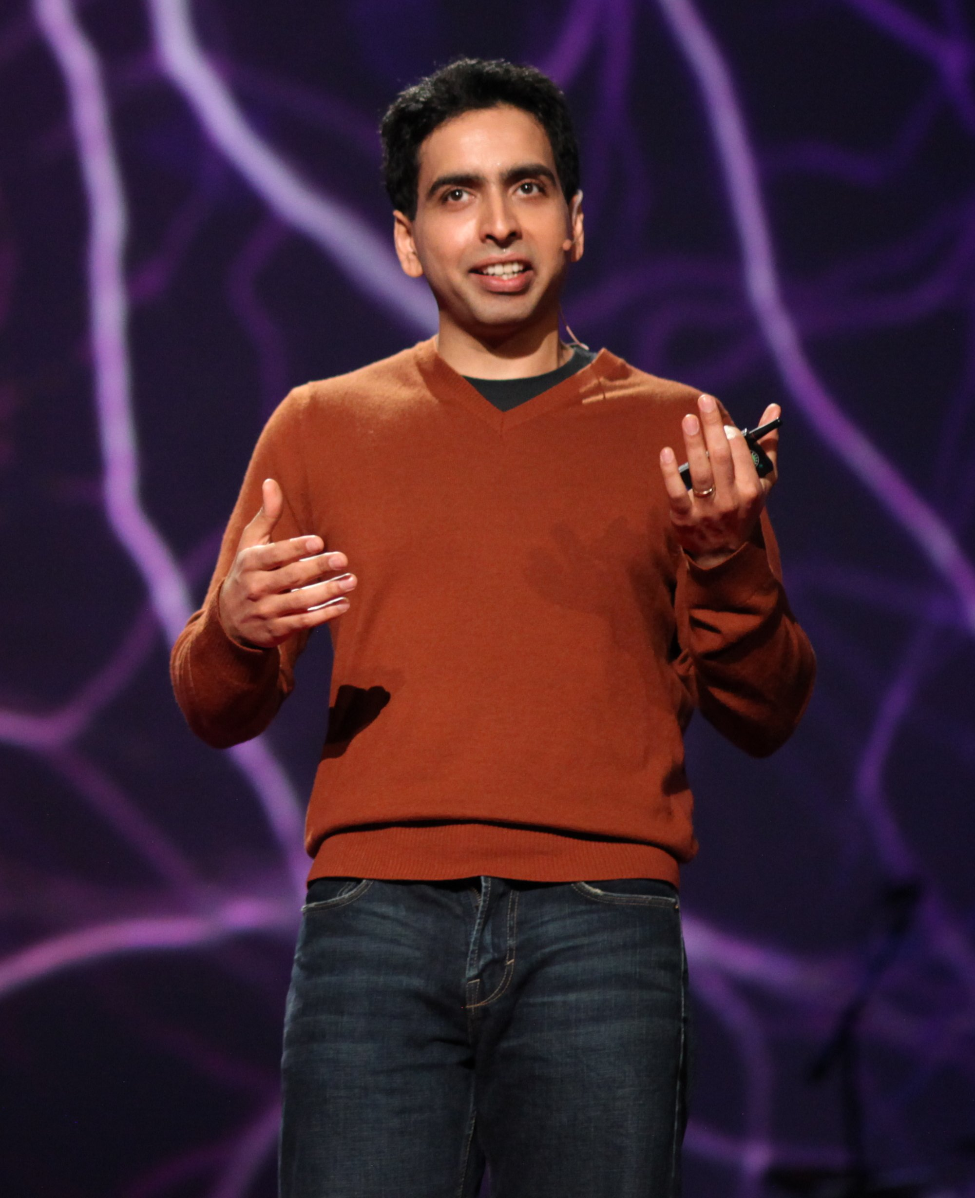 Salman Khan, famous for the Khan Academy, speaking at TED 2011. Cropped from the original.